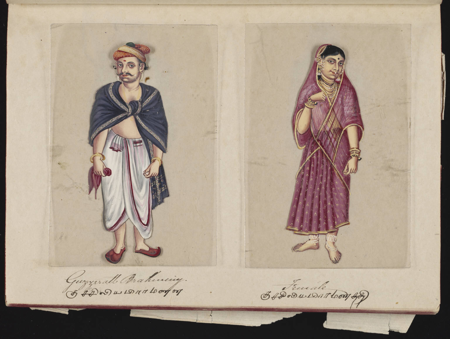 A page from the manuscript Seventy-two Specimens of Castes in India, which consists of 72 full-color hand-painted images of men and women of the various castes and religious and ethnic groups found in Madura, India at that time. Each drawing was made on mica, a transparent, flaky mineral which splits into thin, transparent sheets. As indicated on the presentation page, the album was compiled by the Indian writing master at an English school established by American missionaries in Madura, and given to the Reverend William Twining. The manuscript shows Indian dress and jewelry adornment in the Madura region as they appeared before the onset of Western influences on South Asian dress and style. Each illustrated portrait is captioned in English and in Tamil, and the title page of the work includes English, Tamil, and Telugu.